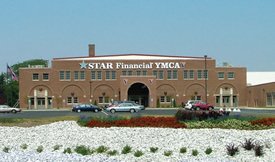 This is the Marion Coliseum Today